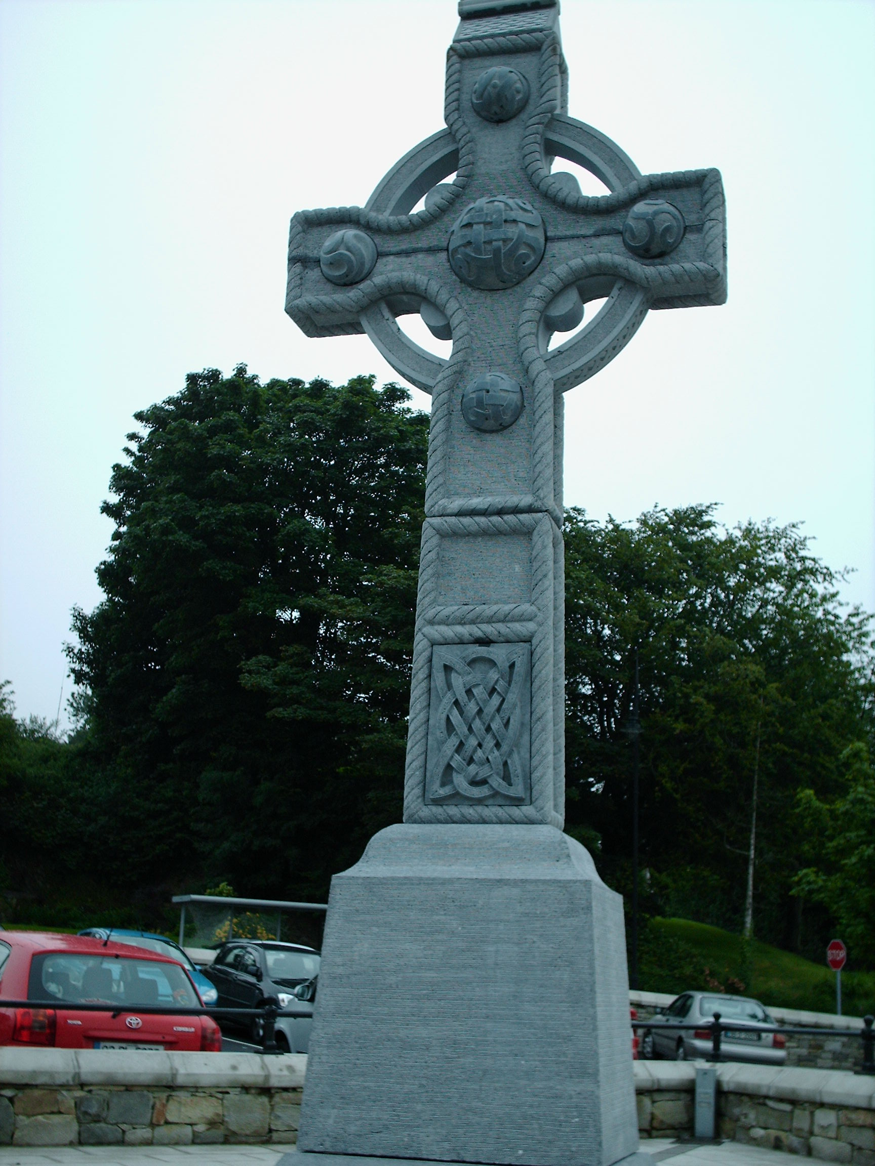 The new monument "The Celtic Cross" in Letterkenny Cathedral car park.